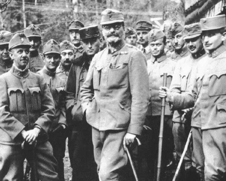 István Tisza, Italian front 1917